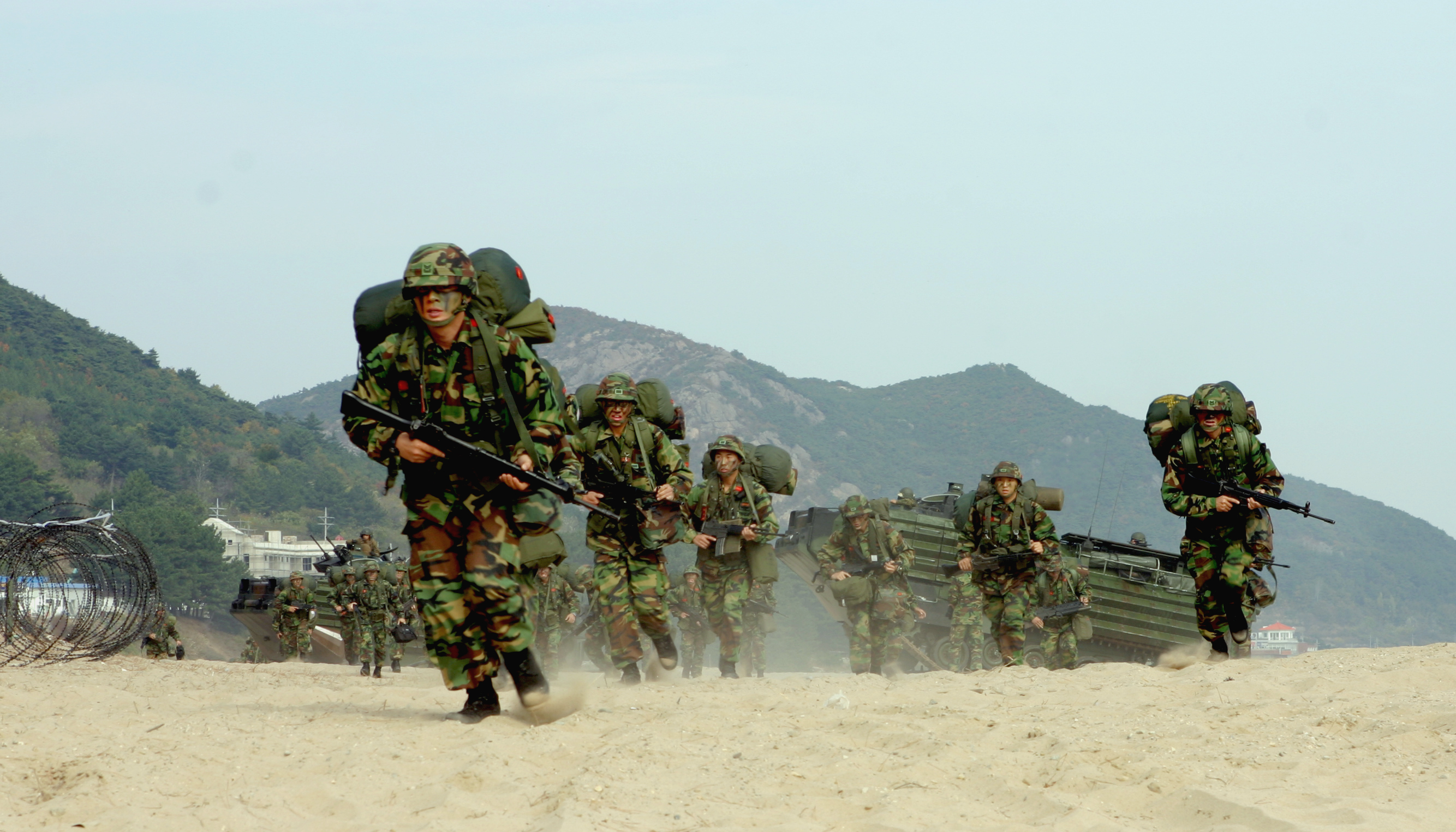 Republic of Korea Marines rush Hwajinri beach during a Korean Incremental Training Program 2009 amphibious landing exercise. The amphibious landing was conducted to improve interoperability of Republic of Korea and U.S. forces during ship to shore operations.